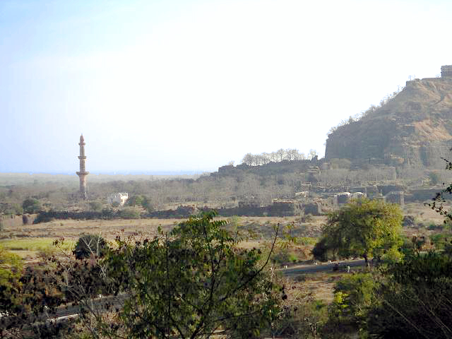 Maharashtra, Maharthwada region.